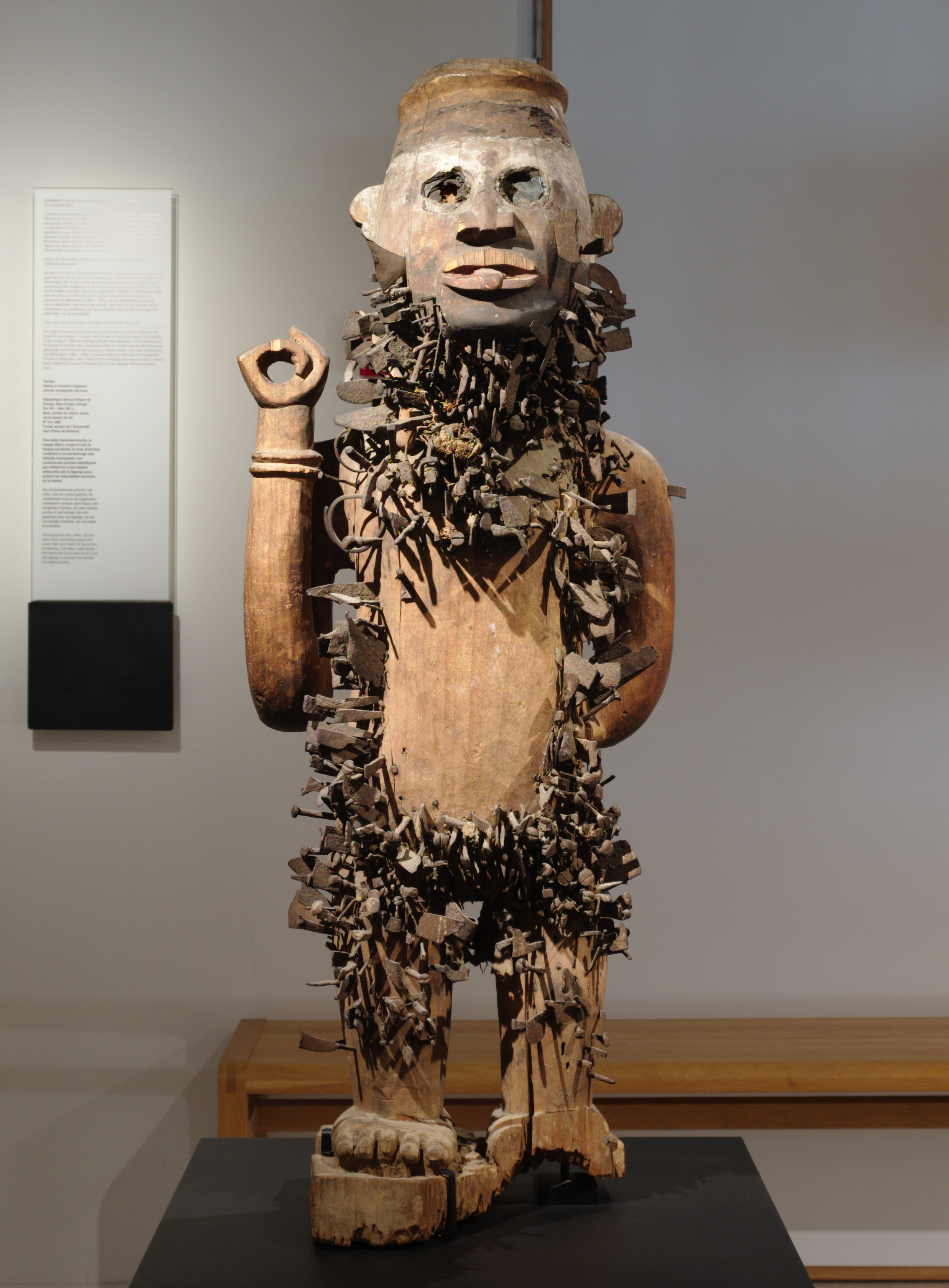 Yombe statue in Musée L, Louvain-la-Neuve This image is part of the Natural Image Noise Dataset